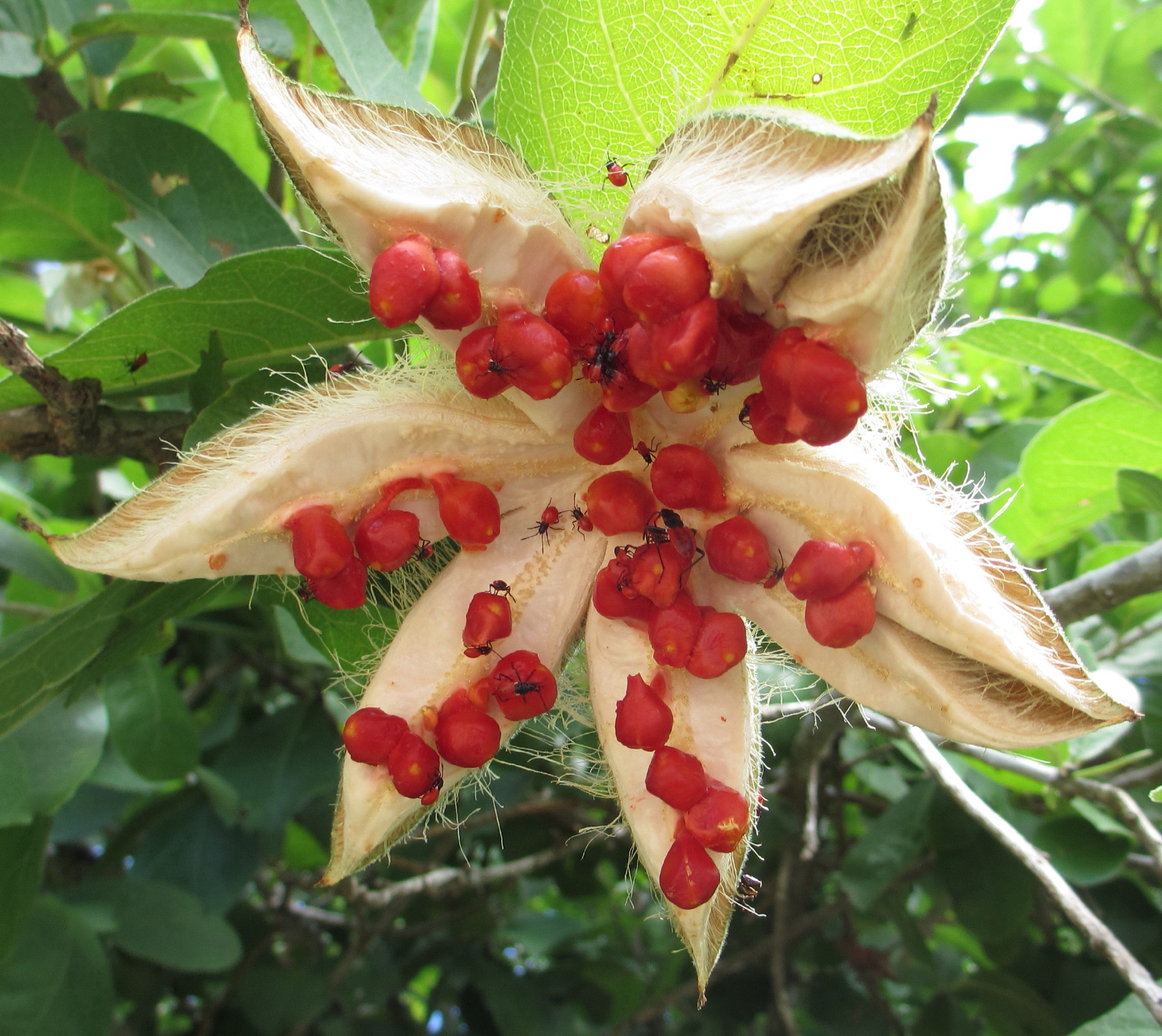 Xylotheca